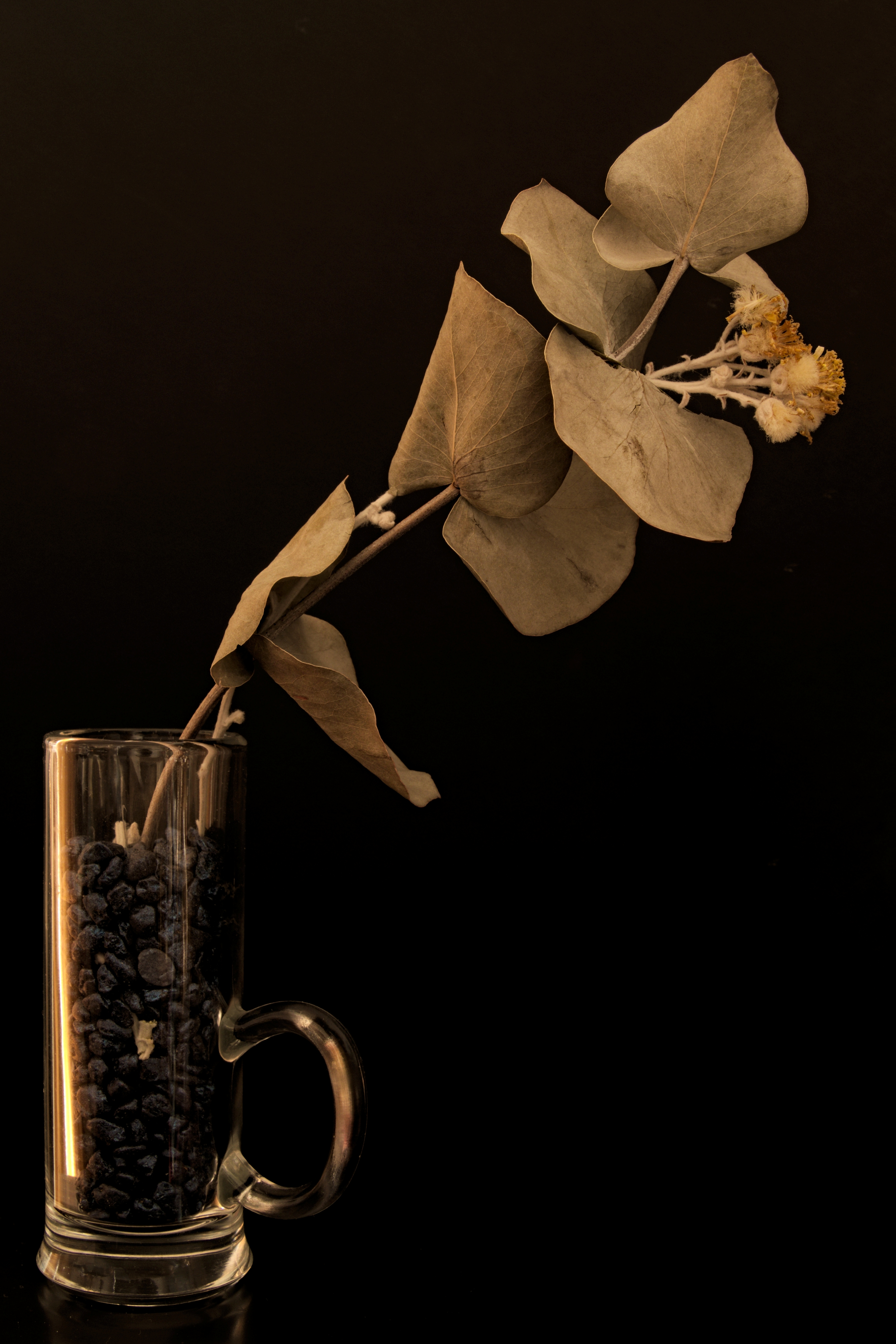 Composition of dried plant parts, young shoot of Eucalyptus and inflorescences of Silver Ragwort.